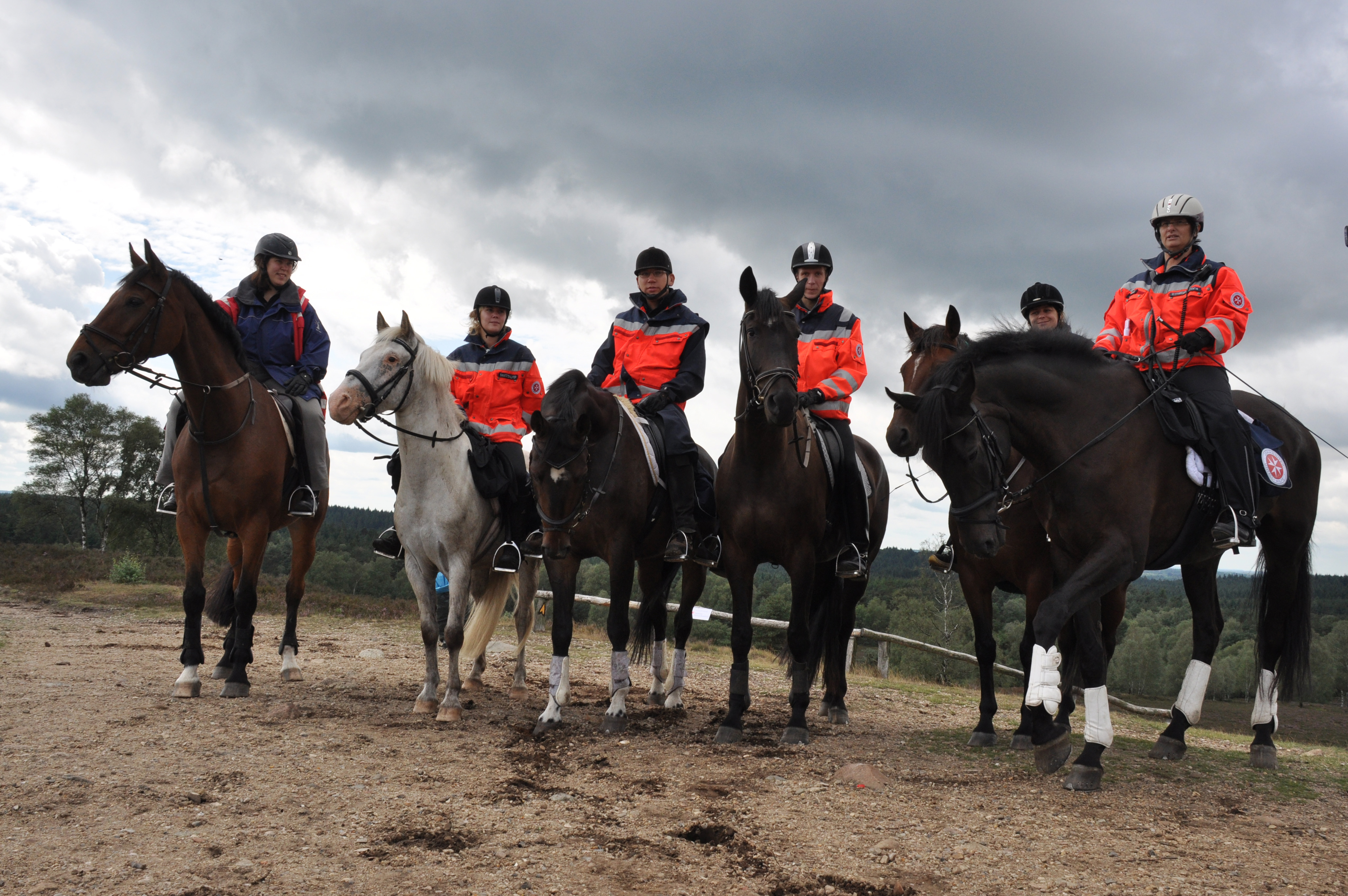 Mounted Paramedic Unit